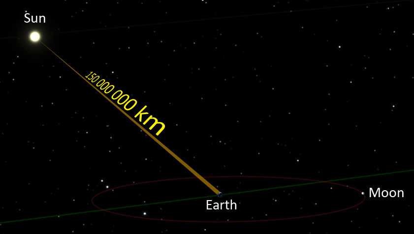 Crude diagram of Sun shining light on Earth with distance marked